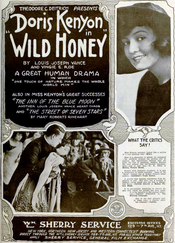 Ad for the American film Wild Honey (1918) with Doris Kenyon and an unidentified actor, on page 143 of the January 11, 1919 Moving Picture World.